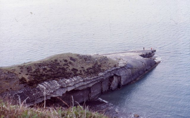 The Sleek Stone. An example of a monoclinal fold. This feature is located north of Broad Haven.